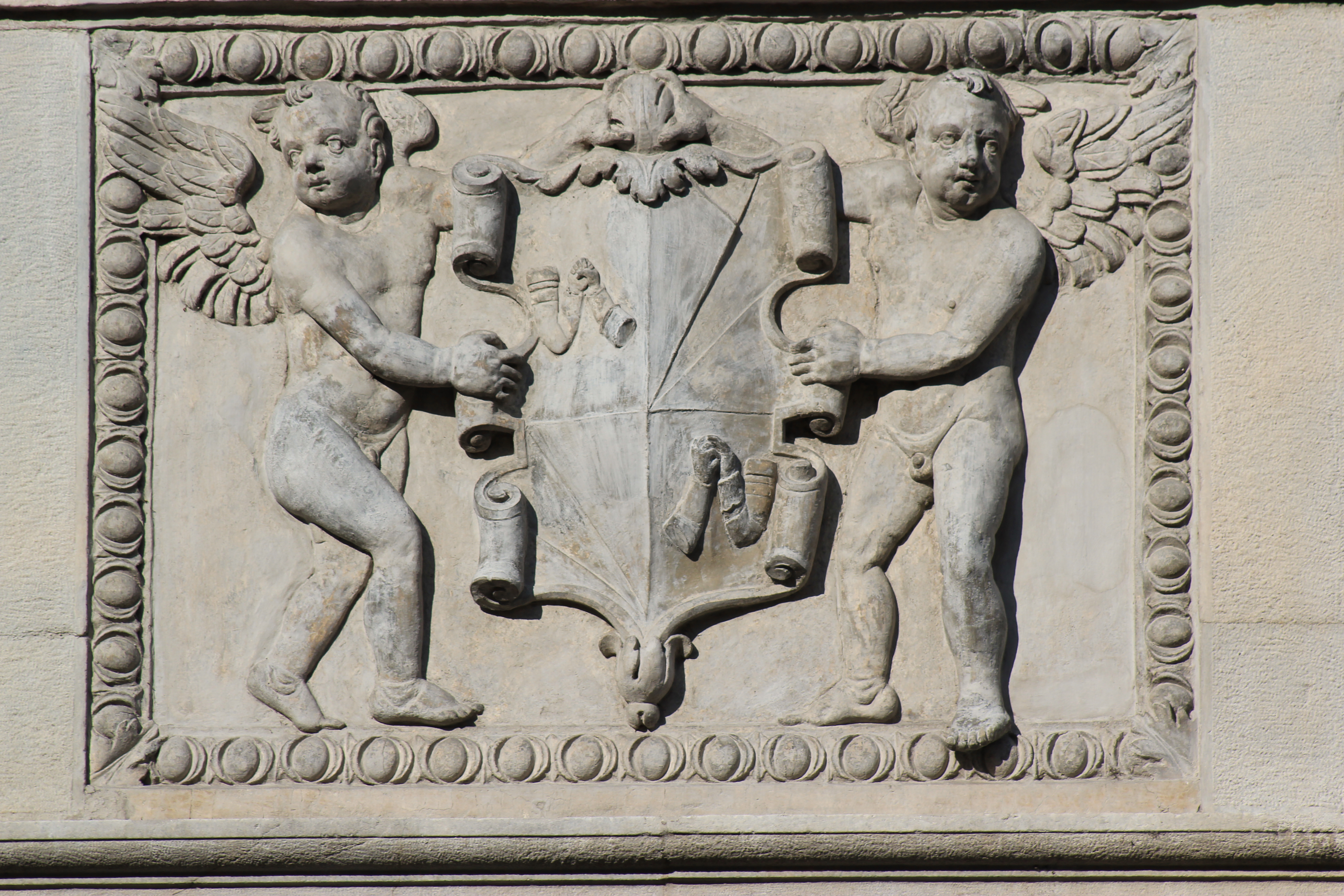 House Hauptplatz No 26 in Villach